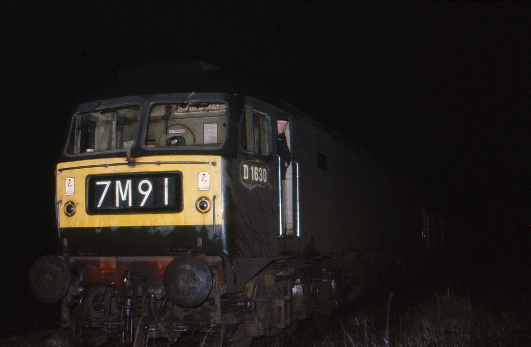 June 20th 1974...D1630 was sent to pick up wagons remaining in the Colliery Sidings..I was privileged to have an unofficial cab ride up the branch . I think enough water has passed under the bridge now to publish this shot without dropping someone in it , but then again knowing my luck ..!! D1630 became 47048 under TOPS renumbering , then 47570 and finally 47849